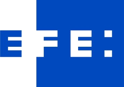 Logotipo de la Agencia EFE